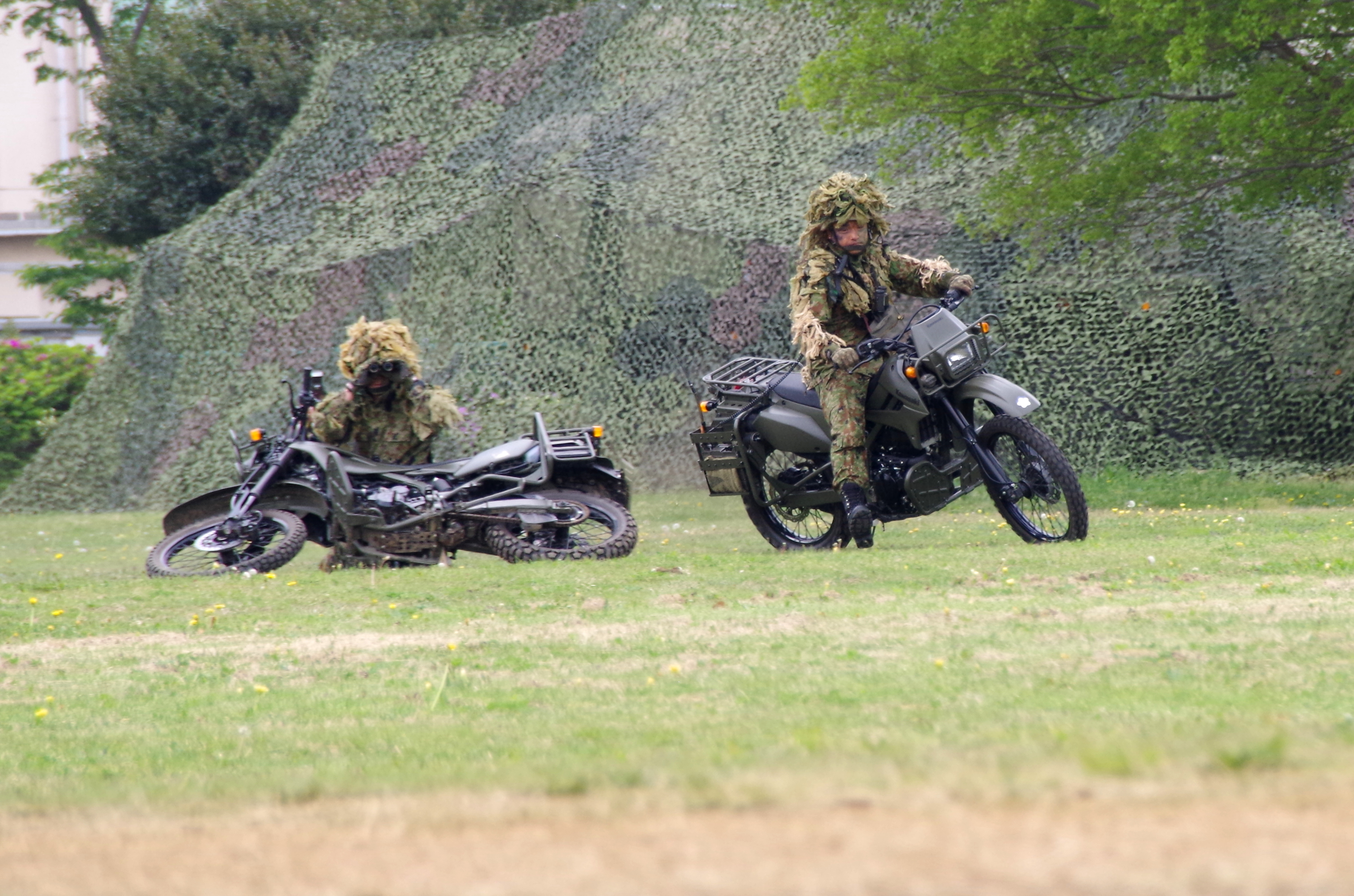 JGSDF reconnaissance bicycle (Kawasaki KLX250).Taken by Los688,in Camp Shimoshizu,Japan,at 29-Apr-2014.PD-self. Ja:陸上自衛隊 偵察用オートバイ（カワサキKLX250）。2014年4月29日、下志津駐屯地で撮影にて撮影。